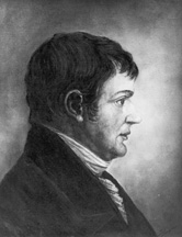 Portrait of John Wayles Eppes